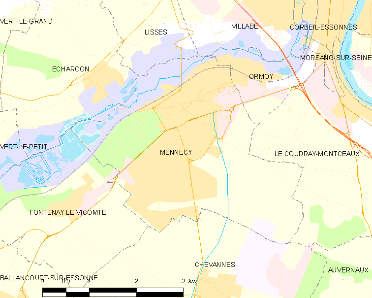 Map of French municipality Mennecy